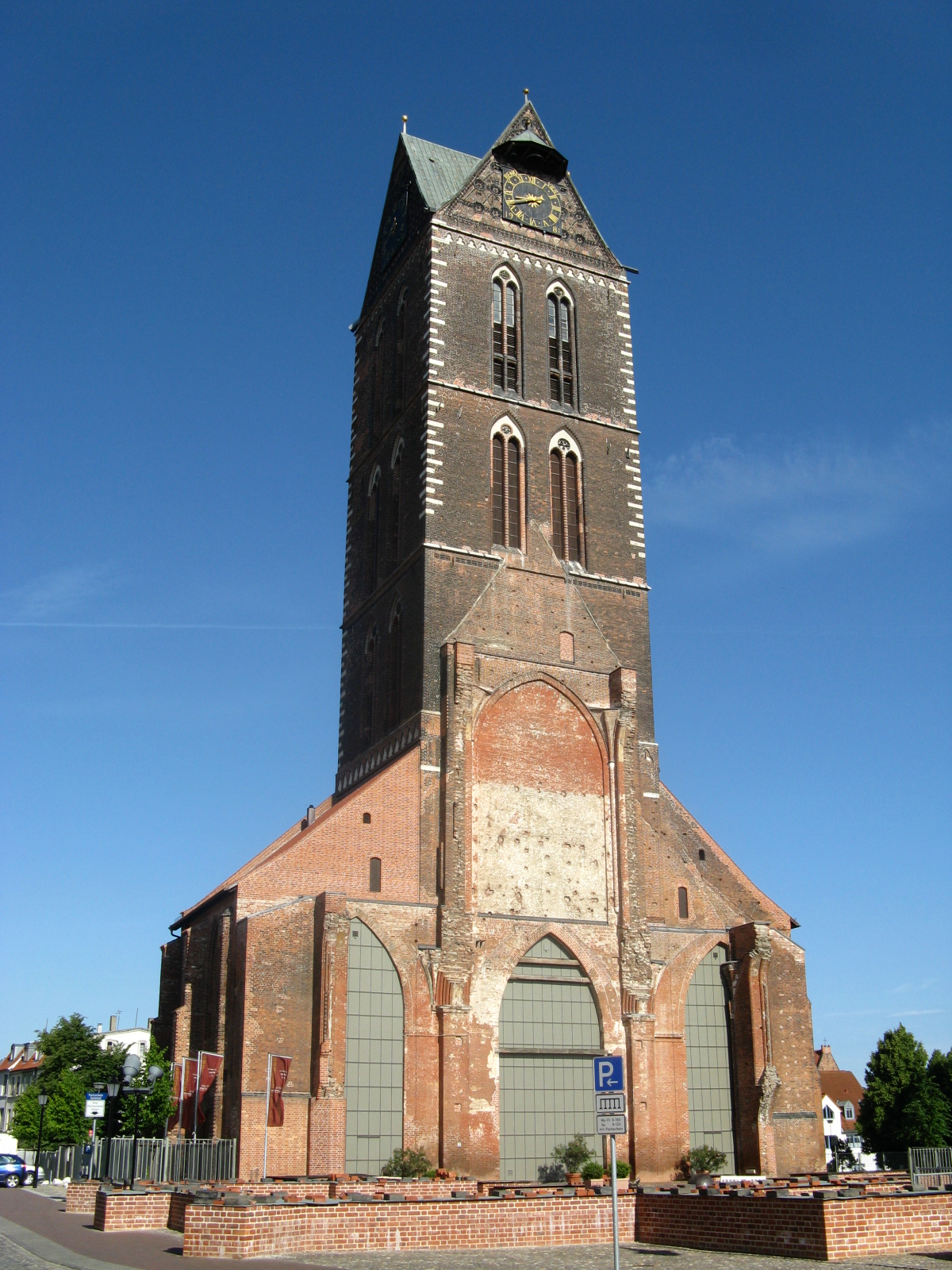 Church St. Marien in Wismar, Mecklenburg-Vorpommern, Germany